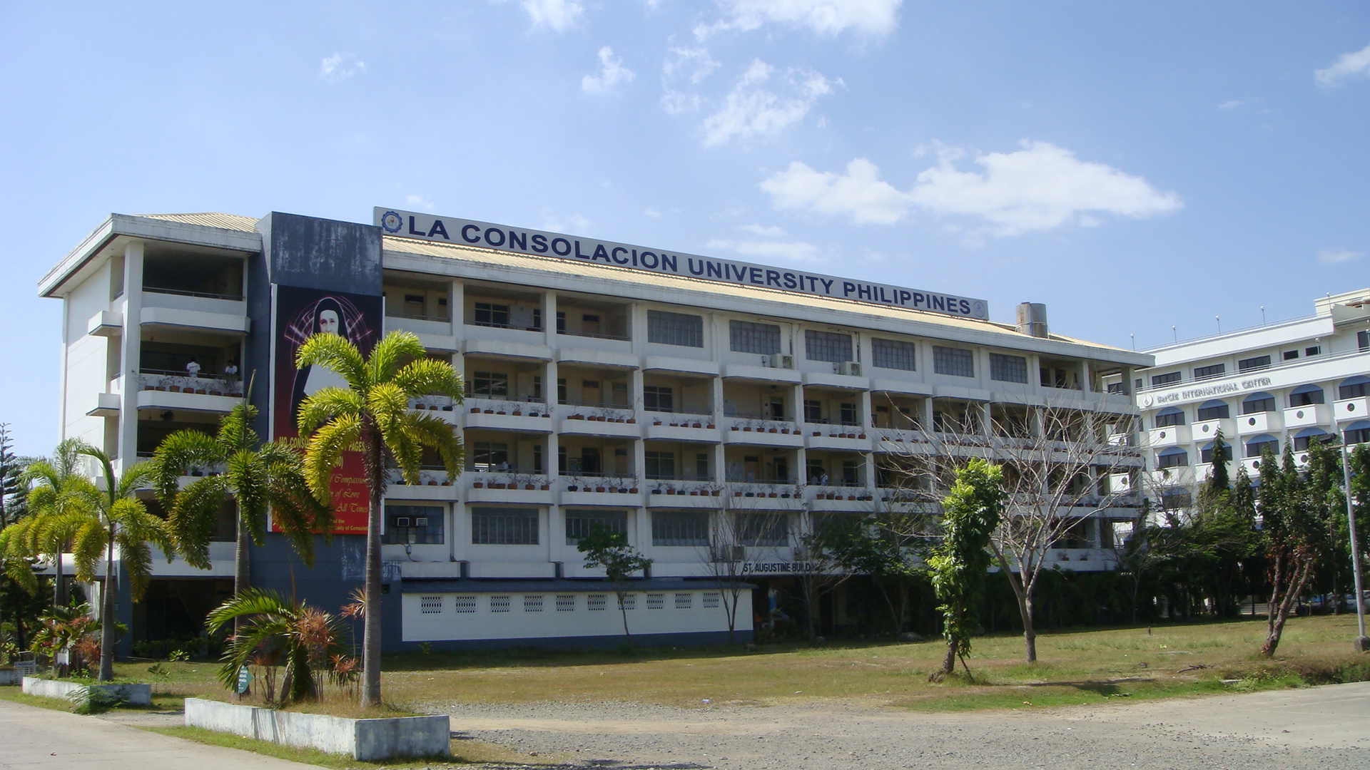 Administration Building, St. Augustine Building and BarCie International Center, La Consolacion University Philippines, Catmon Campus, City of Malolos, Bulacan, Philippines 3000[1]